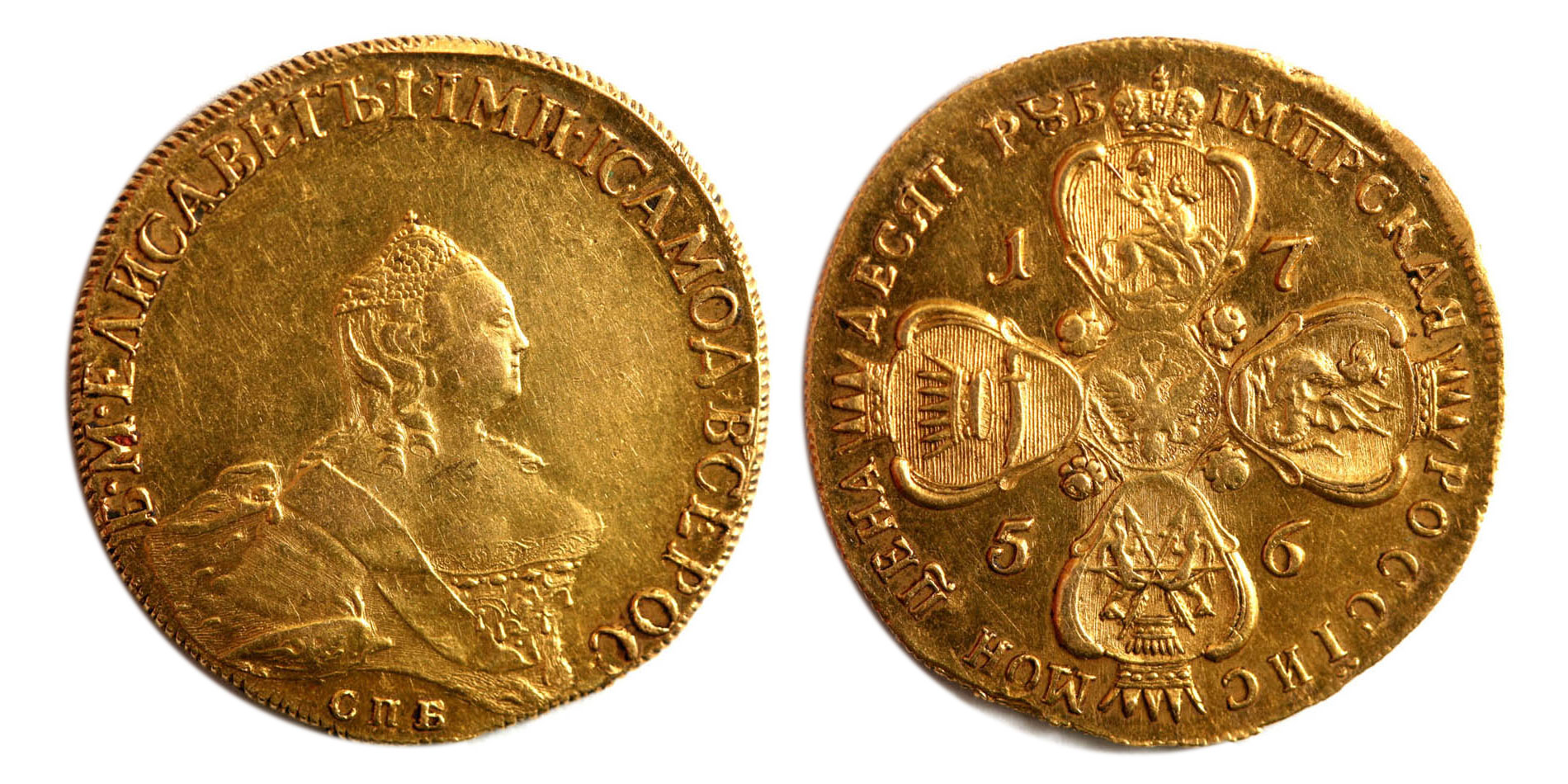 10 рублей 1756 г. (10 roubles of 1756)